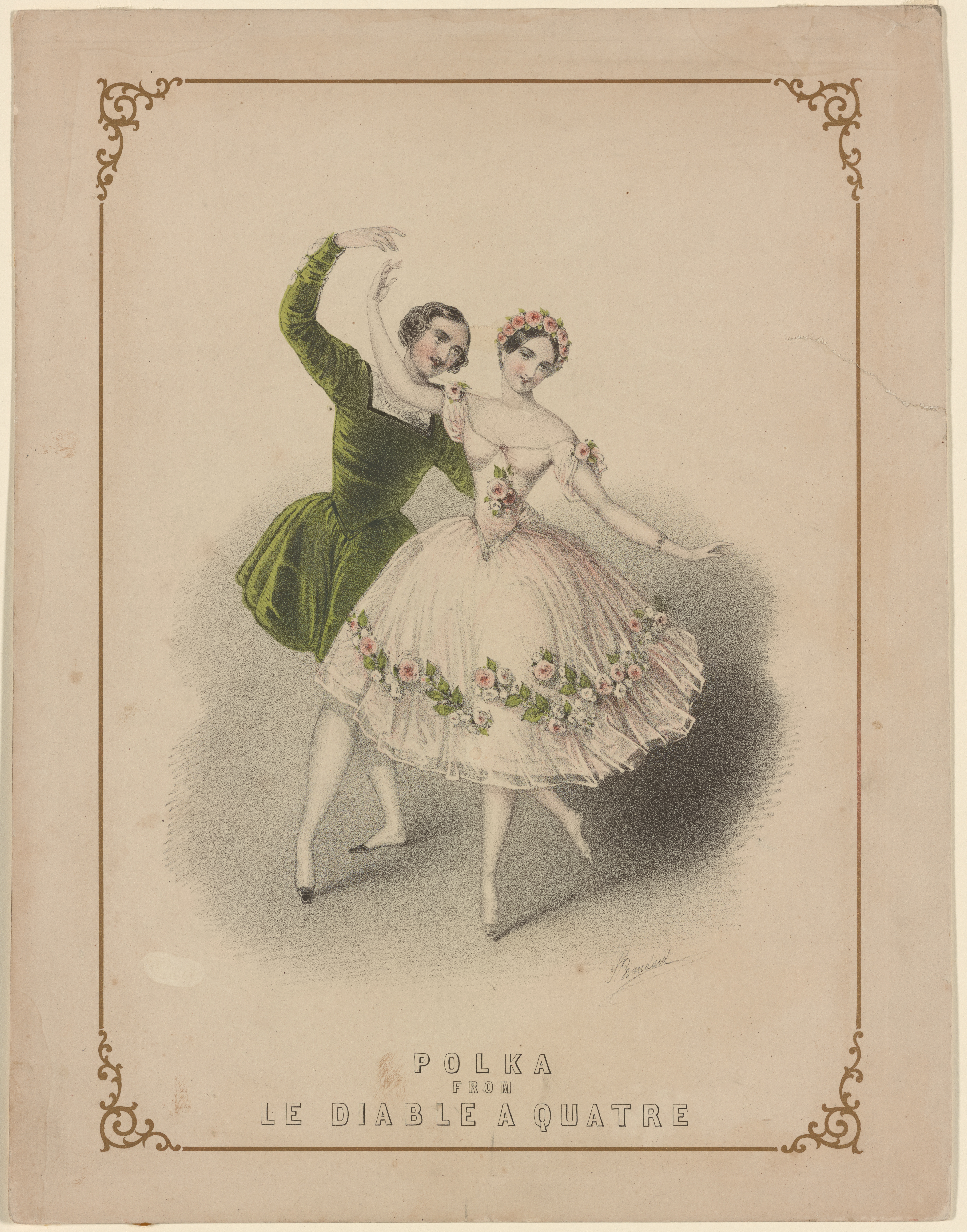 Full-length, Carlotta Grisi on right dancing with Lucien Petipa, on left.